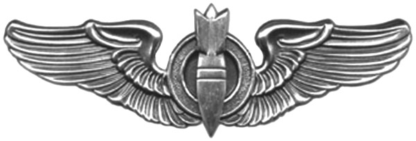 U.S. Army Air Corps/Air Force Bombardier badge